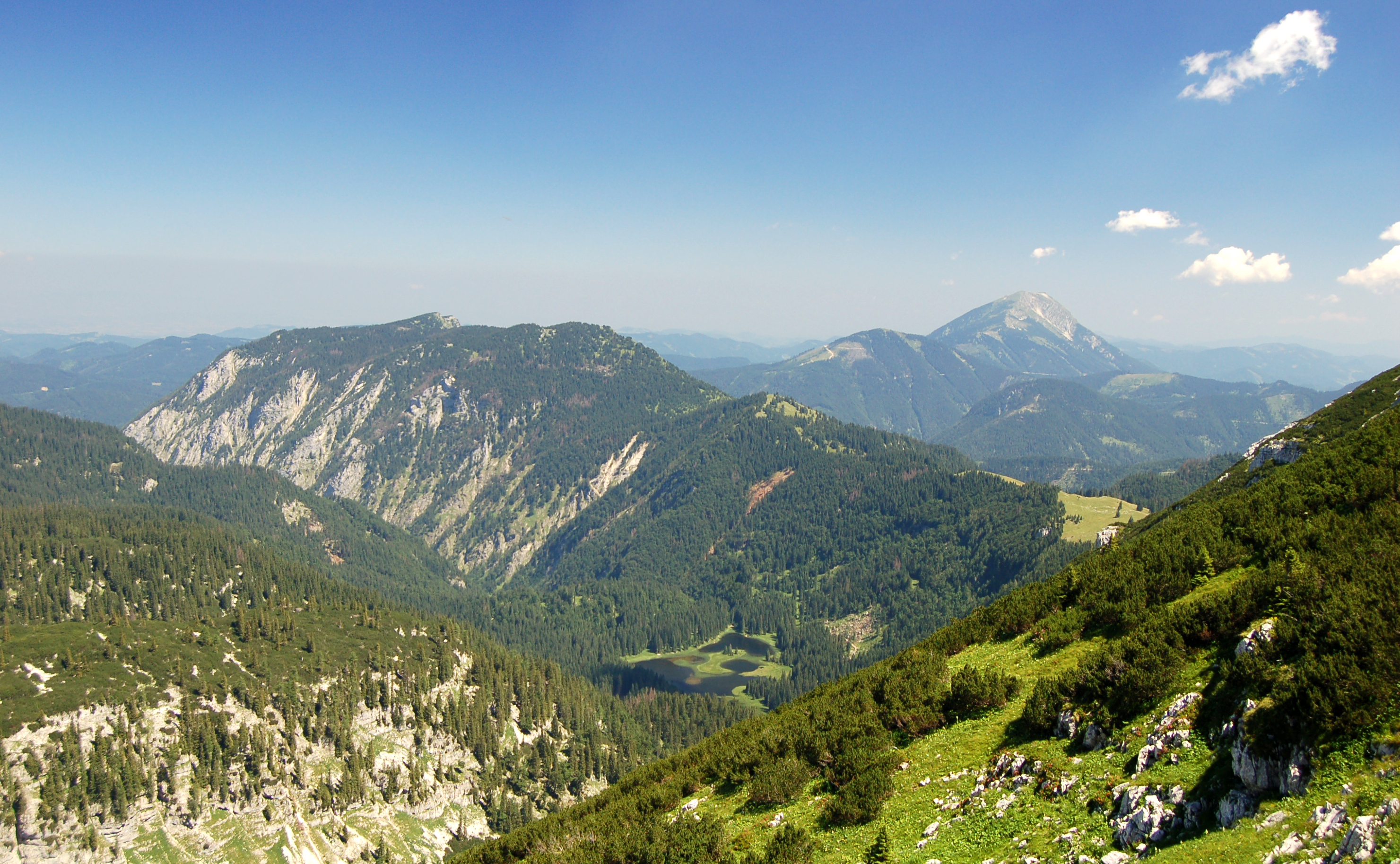 On the way up to Dürrenstein summit (1878m) a view down heading north east to Obersee, Seetal. Lower Austria. Scheiblingstein (1622m), Bärenleitenkogel (1635m), Bärenleitensattel (1396m), Hochreiserkogel (1464m), Herrenalm (1327m), in front Obersee (1114m), in the right rear Kleiner and Großer Ötscher.